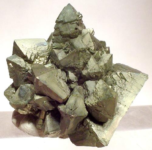 Marcasite Locality: Cap Blanc-Nez (Escalles), Pas-de-Calais, Nord-Pas-de-Calais, France (Locality at ) A SUPERB and CLASSIC, undamaged rosette of pagoda-like, brassy, marcasite crystals from Cap Blanc Nez, Pas-de-Calais, France. Classic old material! 3.4 x 3.2 x 2.7 cm